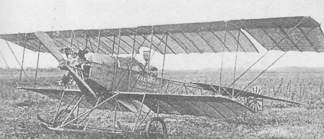 An aviator from Japan,滋野清武（Kiyotake Shigeno）